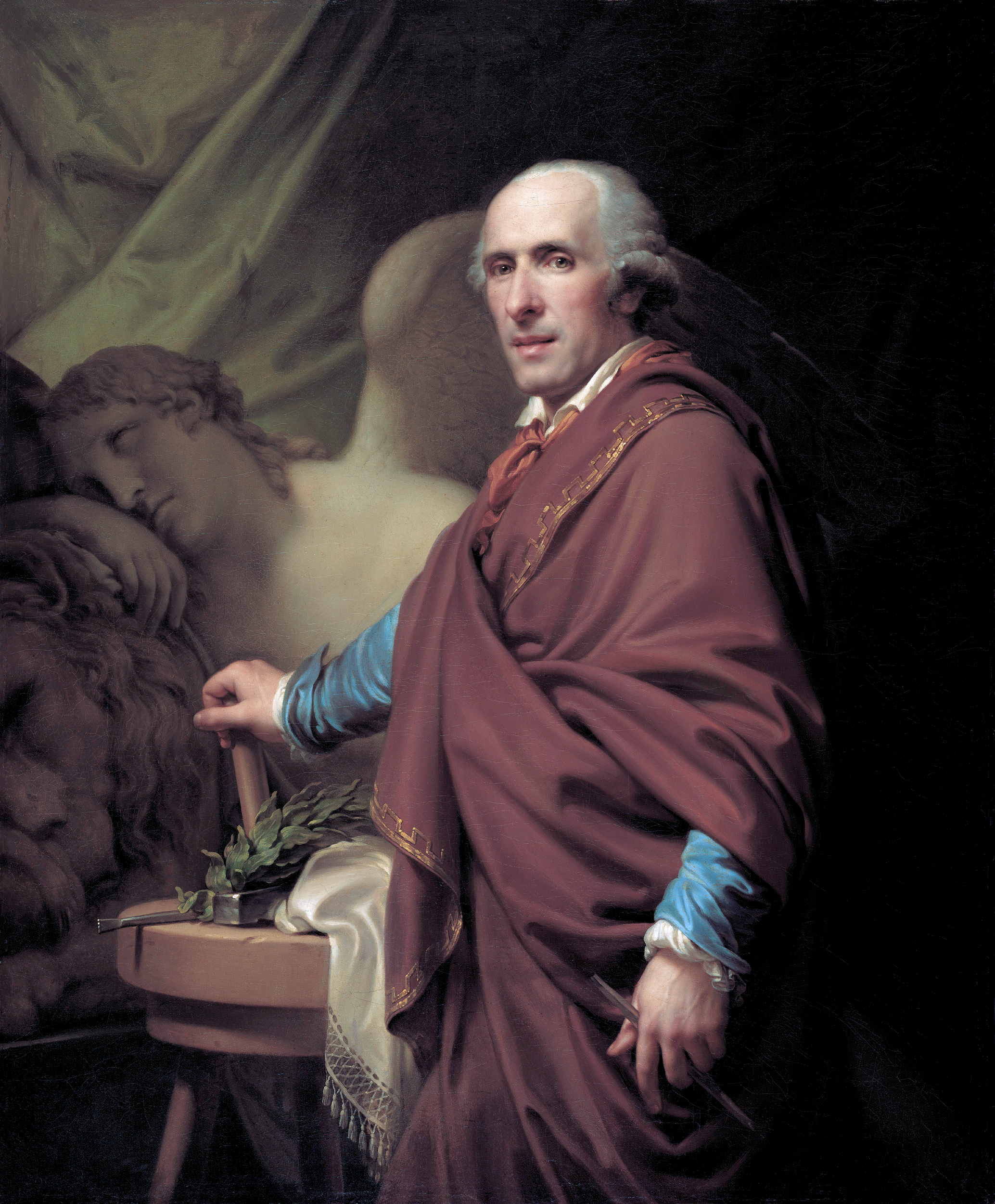 Sculptor Antonio Canova (1757-1822) oil on canvas 113 x 94 cm signed b.l.: Eques de Lampi / pinxit ao. 1806. Inv.-No. GE356